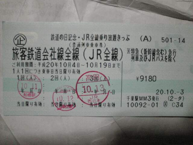 Japanese Train Ticket (tetudounohi Ticket)